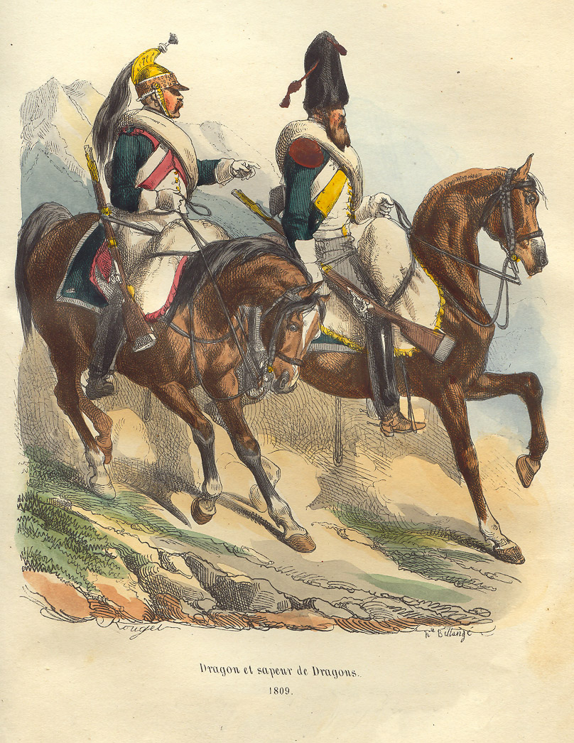 Dragoon and Sapper from the Grande Armée. From book of P.-M. Laurent de L`Ardeche «Histoire de Napoleon», 1843